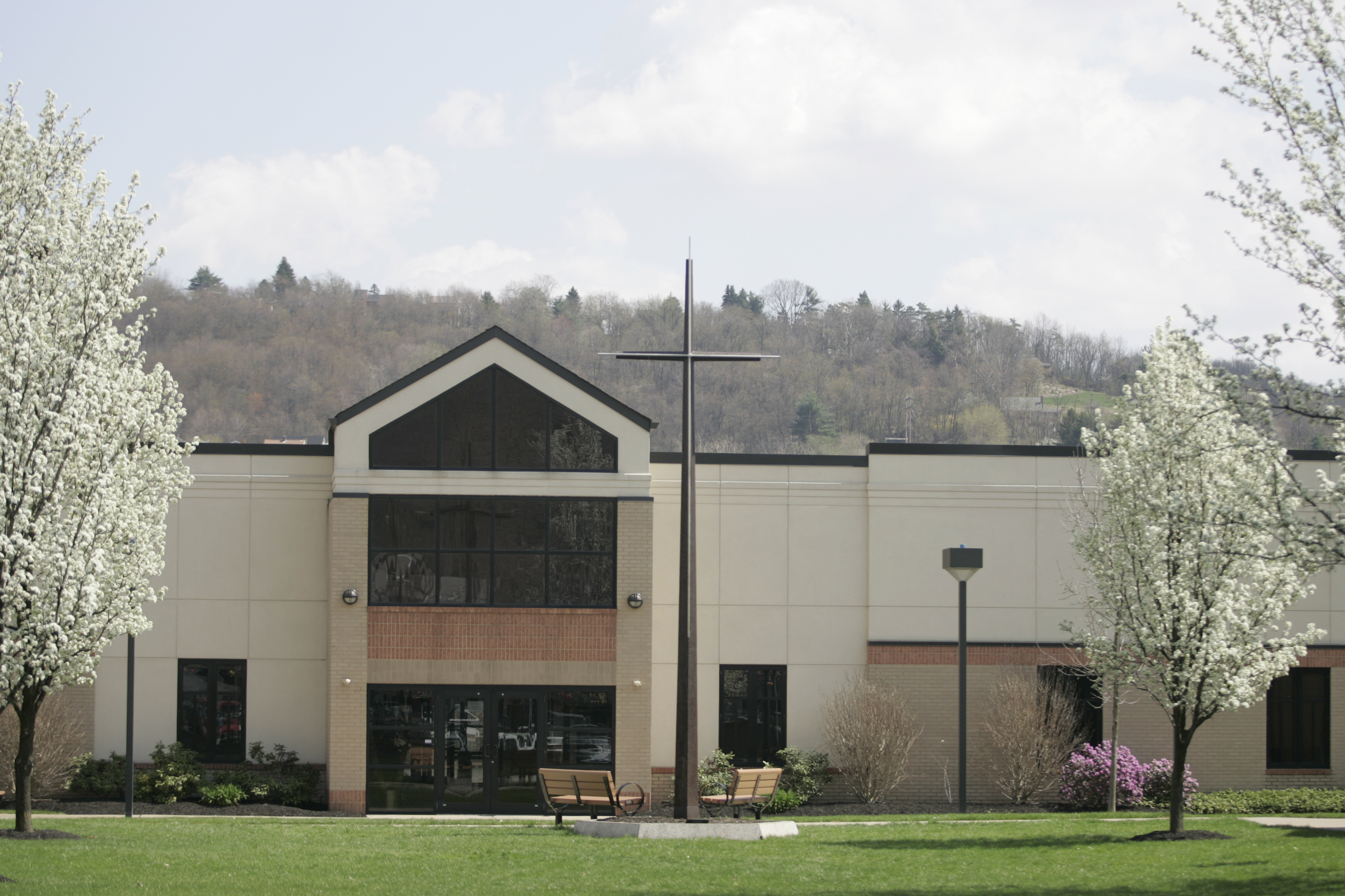 Photograph of Trinity School for Ministry's campus taken in Spring of 2010.